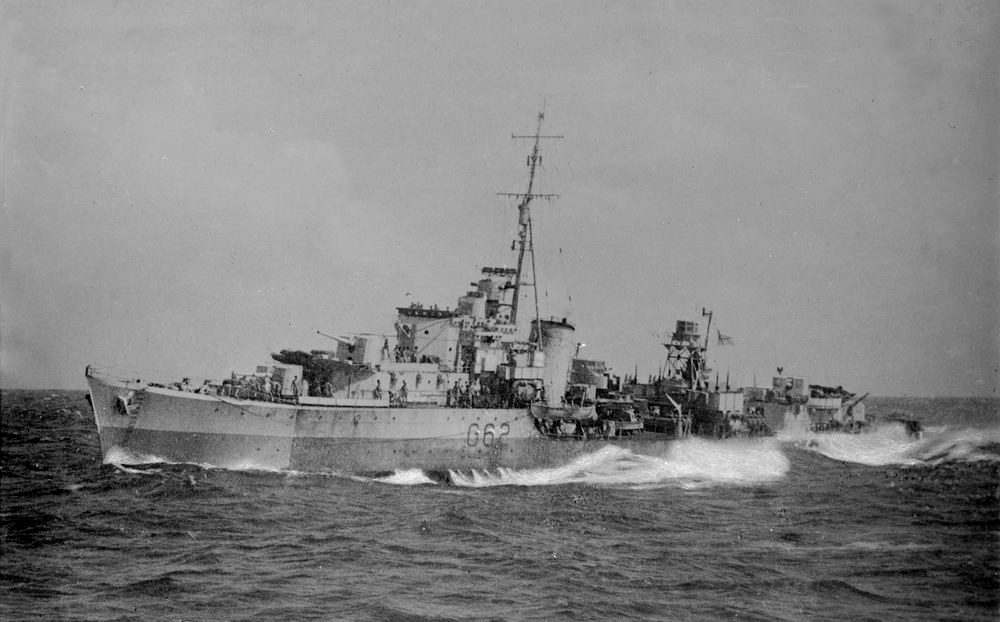 The Royal Navy destroyer HMS Quality (G62) underway in the Indian Ocean on 13 May 1944. Quality was transferred to Australia on 8 October 1945 but served only for 59 days.